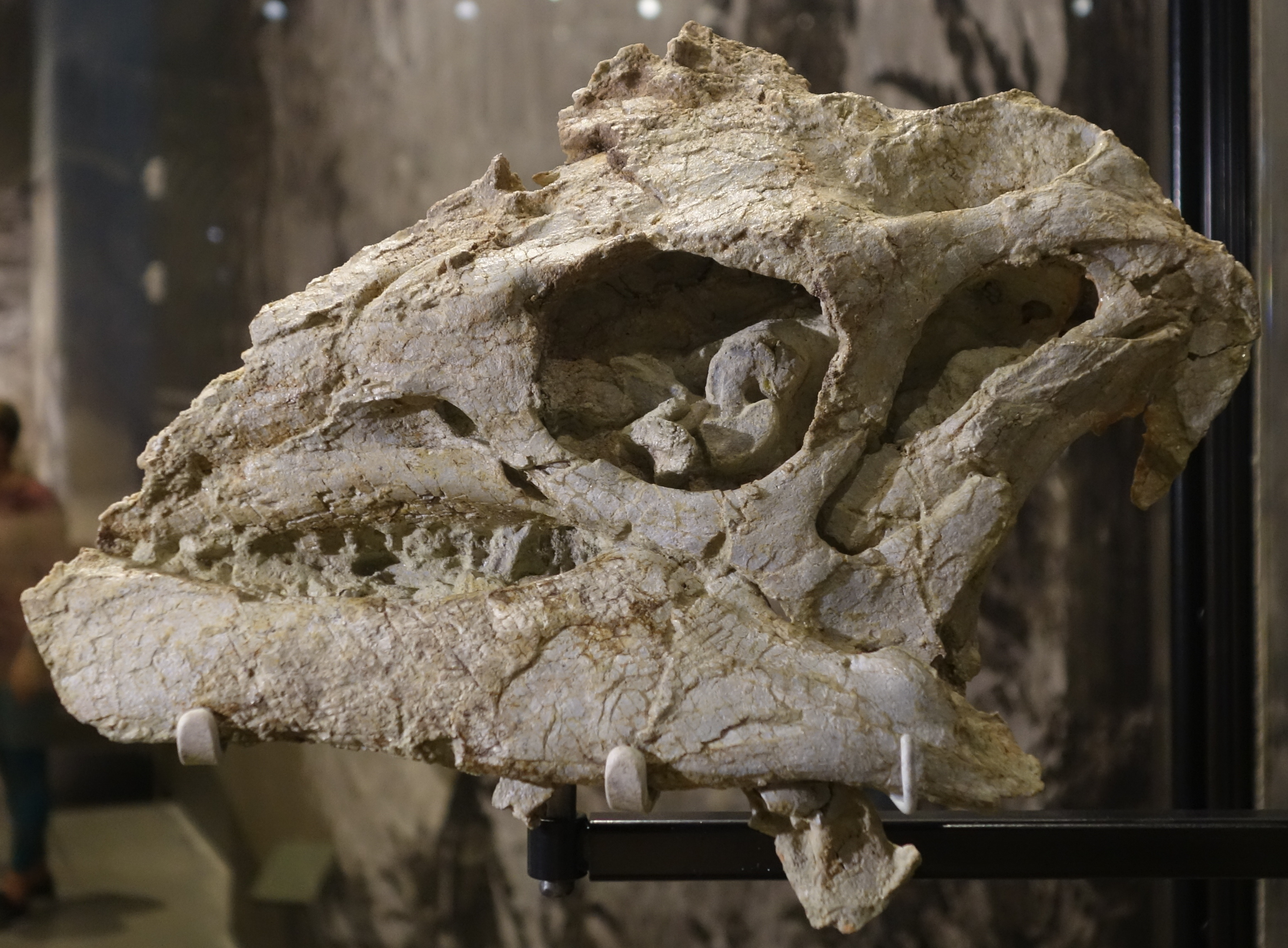 Hippodraco scutodens, discovered in Grand County, Utah, 2007, on display at the Natural History Museum of Utah, Salt Lake City.